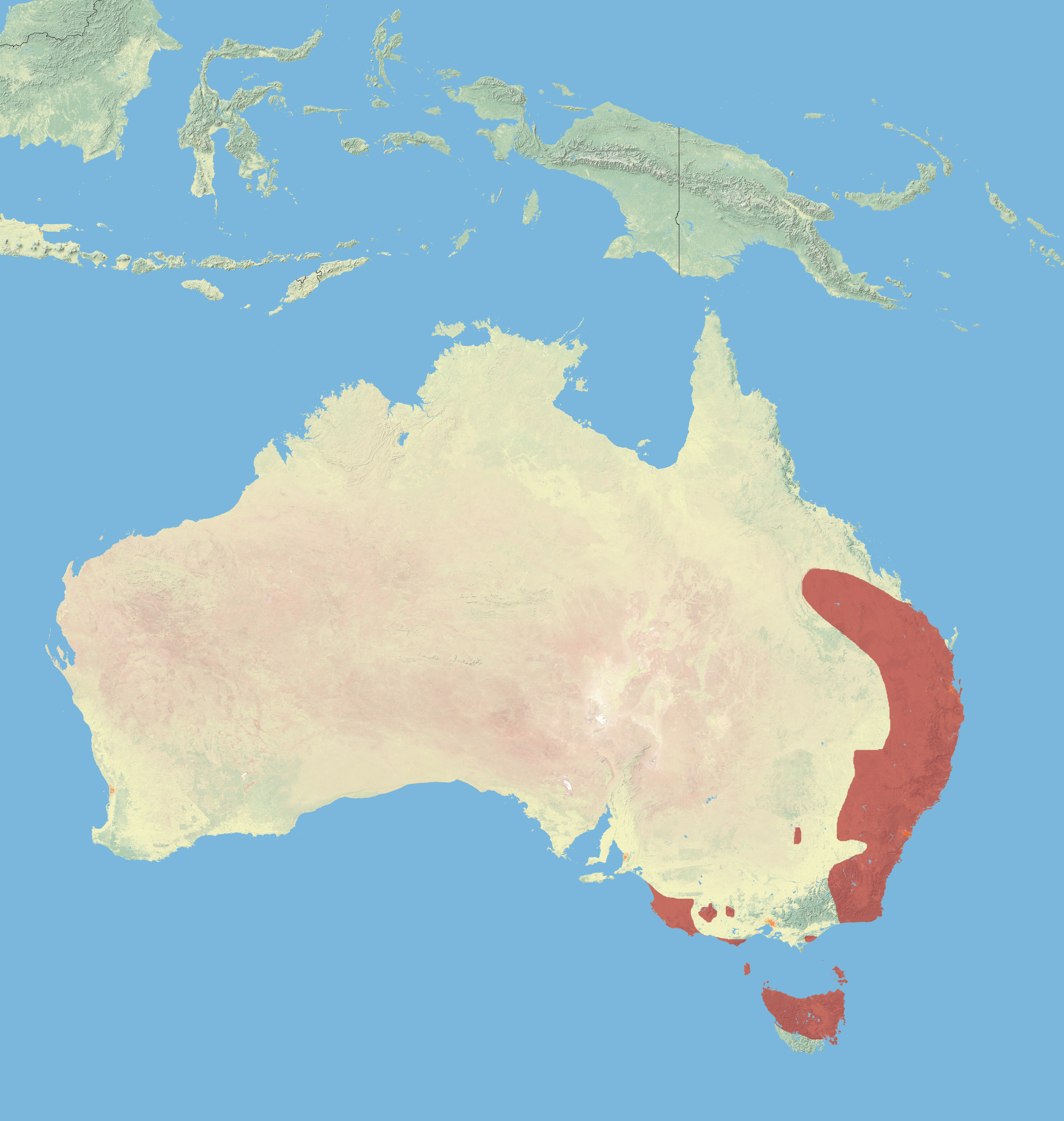 The Distribution of the Bennett's Wallaby According to the IUCN